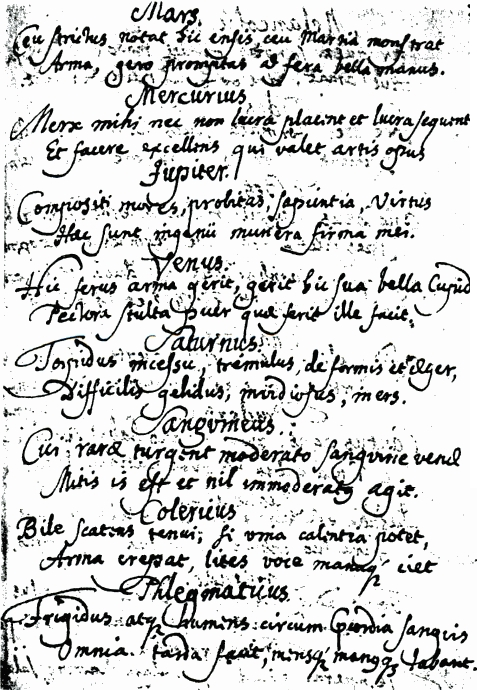 Facsimile of late 17th-C writings on humoural physiology by Marcus Fronius